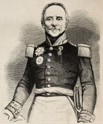 Portrait of General Camille Alphonse Trezel (1780-1860), Minister of war.